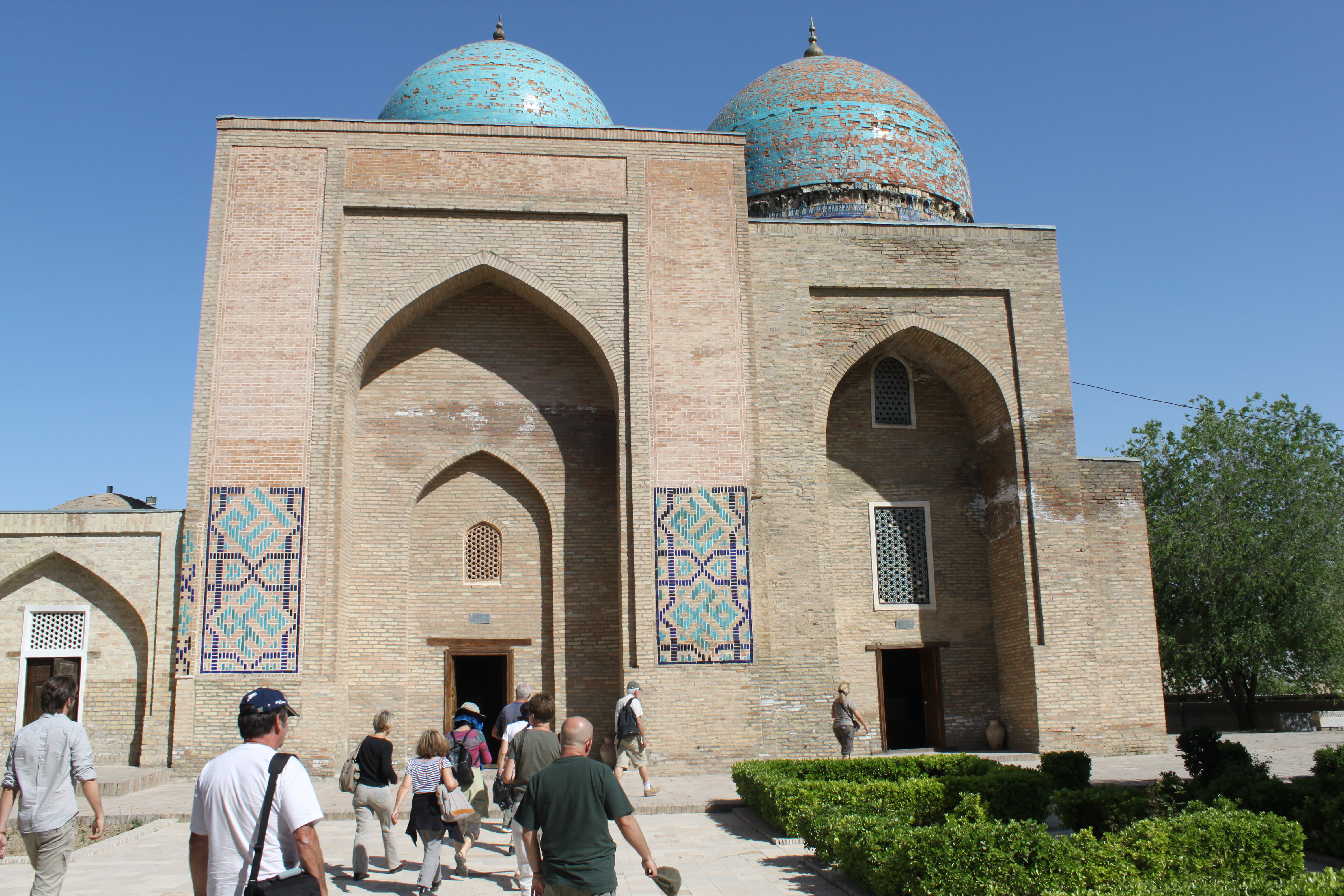 On the right, Gumbaz-Sayyida mausoleum, on the left, Shamseddin Kulal mausoleum